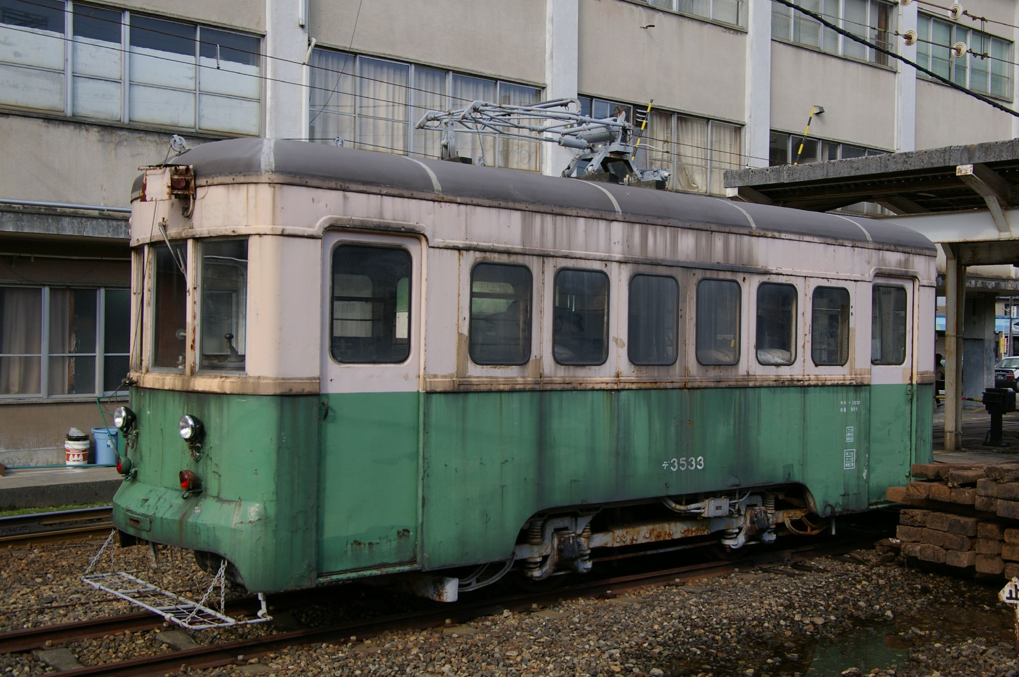 Toyama Chiho tramcar De 3533 at Minami-Toyama Station